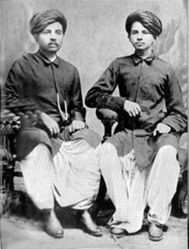 Gandhi and his elder brother Laxmidas in 1886.